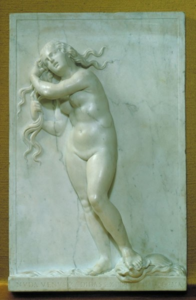 'Venus Anadyomène, ( 41 x 23 cm ) marble at the Vicgtoria and Albert Museum, London. Inscribed on base; NVDA VENVS MADDIDAS EXPRIMIT IMBRE COMAS.